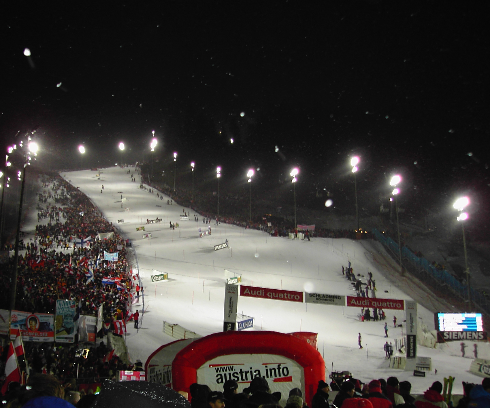 slope of the 2005 world cup slalom( "the night race") in schladming, austria